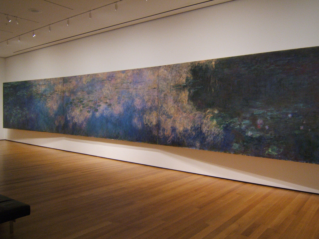 Claude Monet. Reflections of Clouds on the Water-Lily Pond. c. 1920. Oil on canvas, three panels, Each 6' 6 3/4" x 13' 11 1/4" (200 x 424.8 cm), overall 6' 6 3/4" x 41' 10 3/8" (200 x 1276 cm). Mrs. Simon Guggenheim Fund. © 2008 Artists Rights Society (ARS), New York / ADAGP, Paris Wikipedia Loves Art at the Museum of Modern Art This photo of item # 666.1959.a-c at the Museum of Modern Art was contributed under the team name "Joey_B" as part of the Wikipedia Loves Art project in February 2009. Museum of Modern Art The original photograph on Flickr was taken by bishop.joann—please add a comment to the original Flickr page whenever a use has been made on Wikipedia or another project. Project galleries on Flickr: this institution, this team